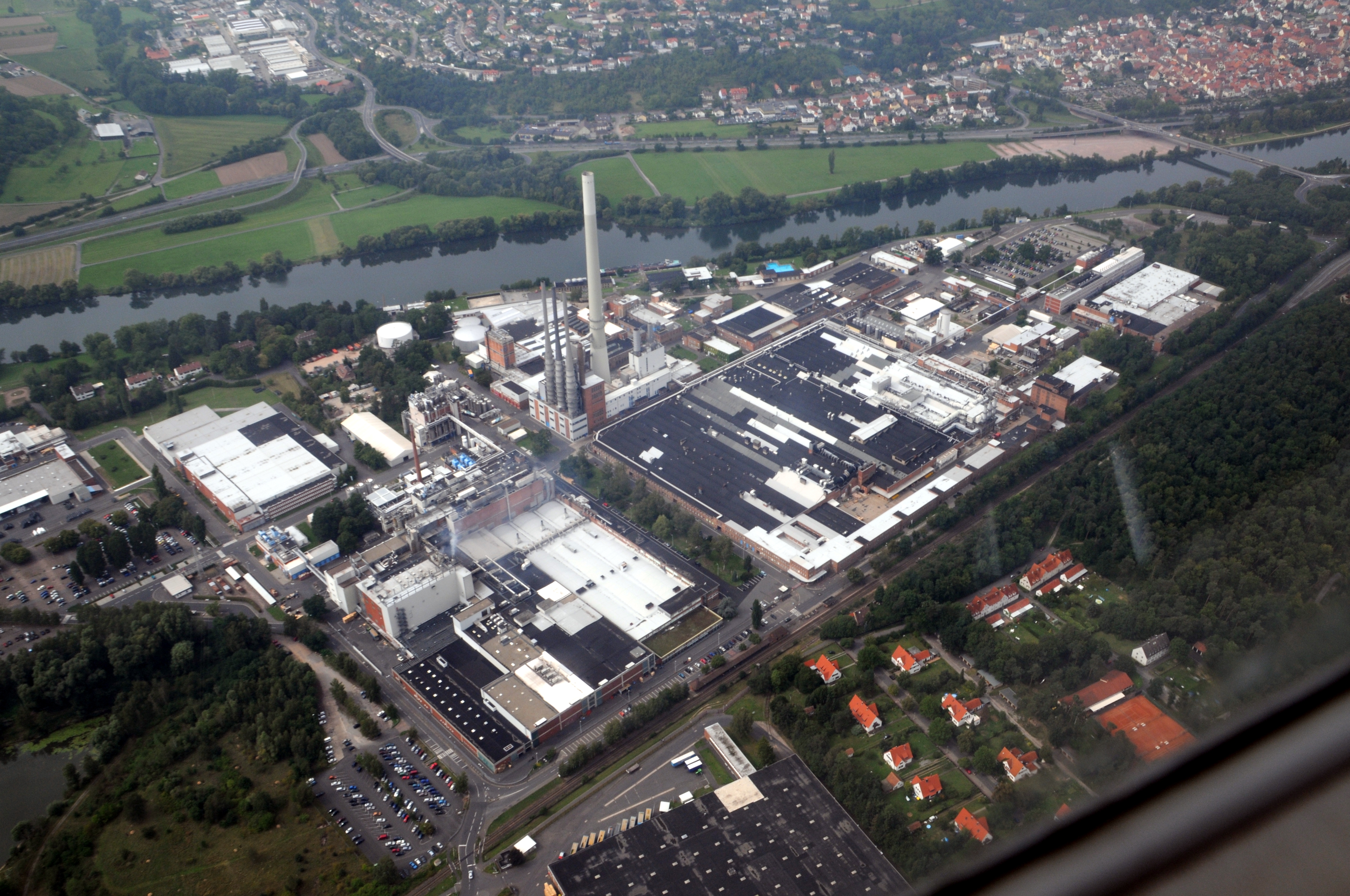 Industrie Center Obernburg, Obernburg am Main, Bavaria, Germany, aerial photograph